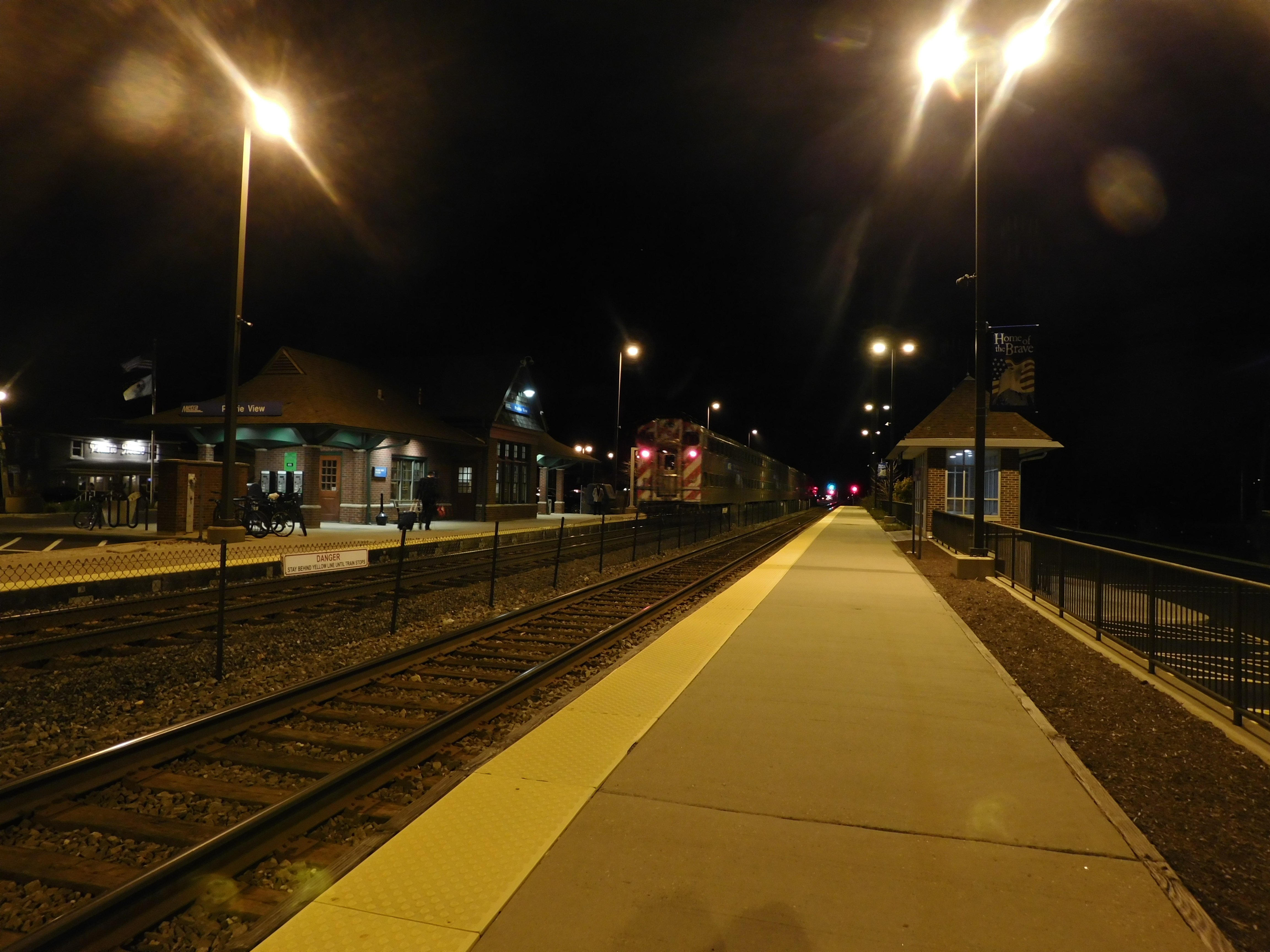 A Metra North Central Service train departs the Prairie View station.